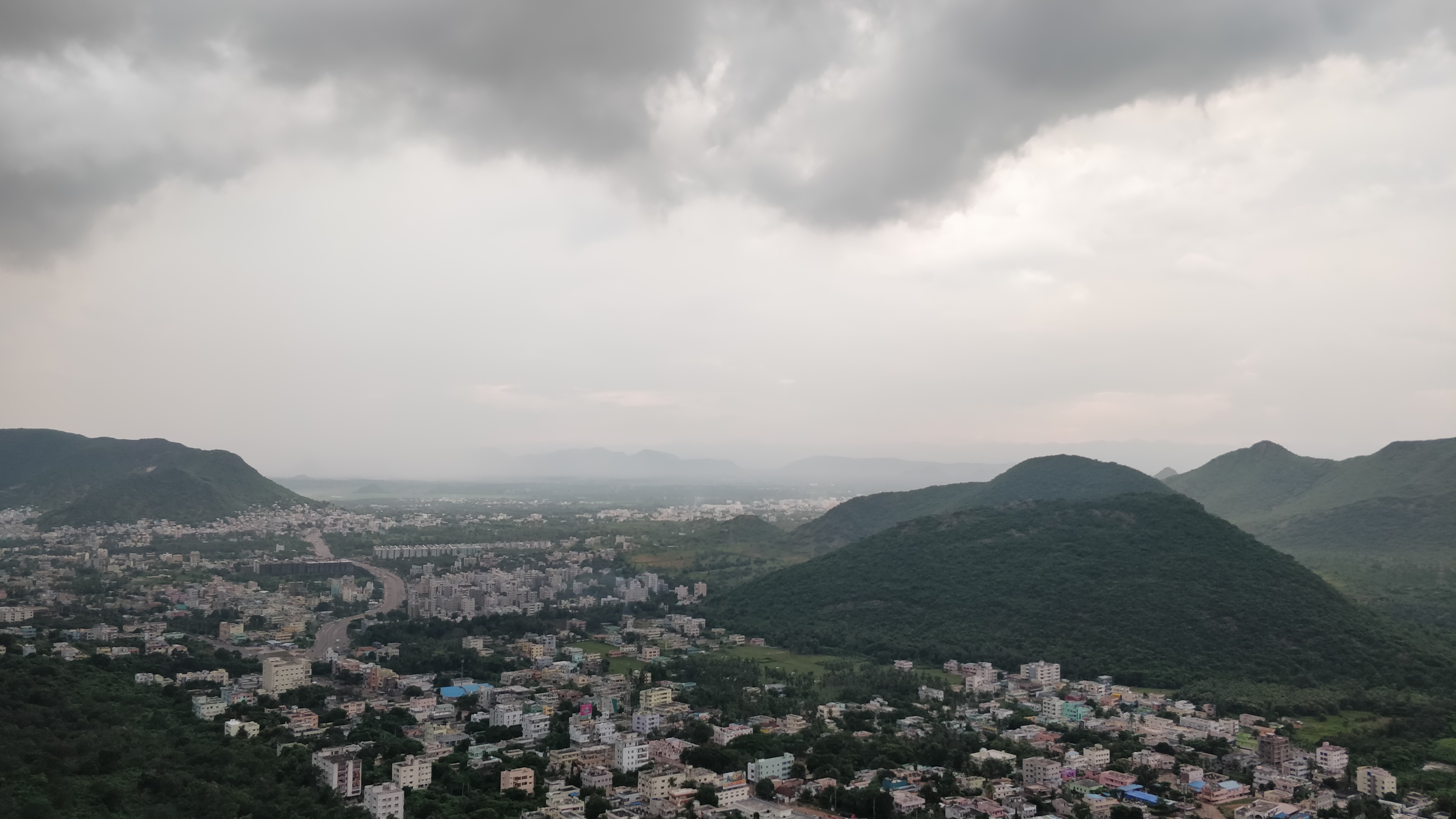 Visakhapatnam from Simhachalam hill on a cloudy day